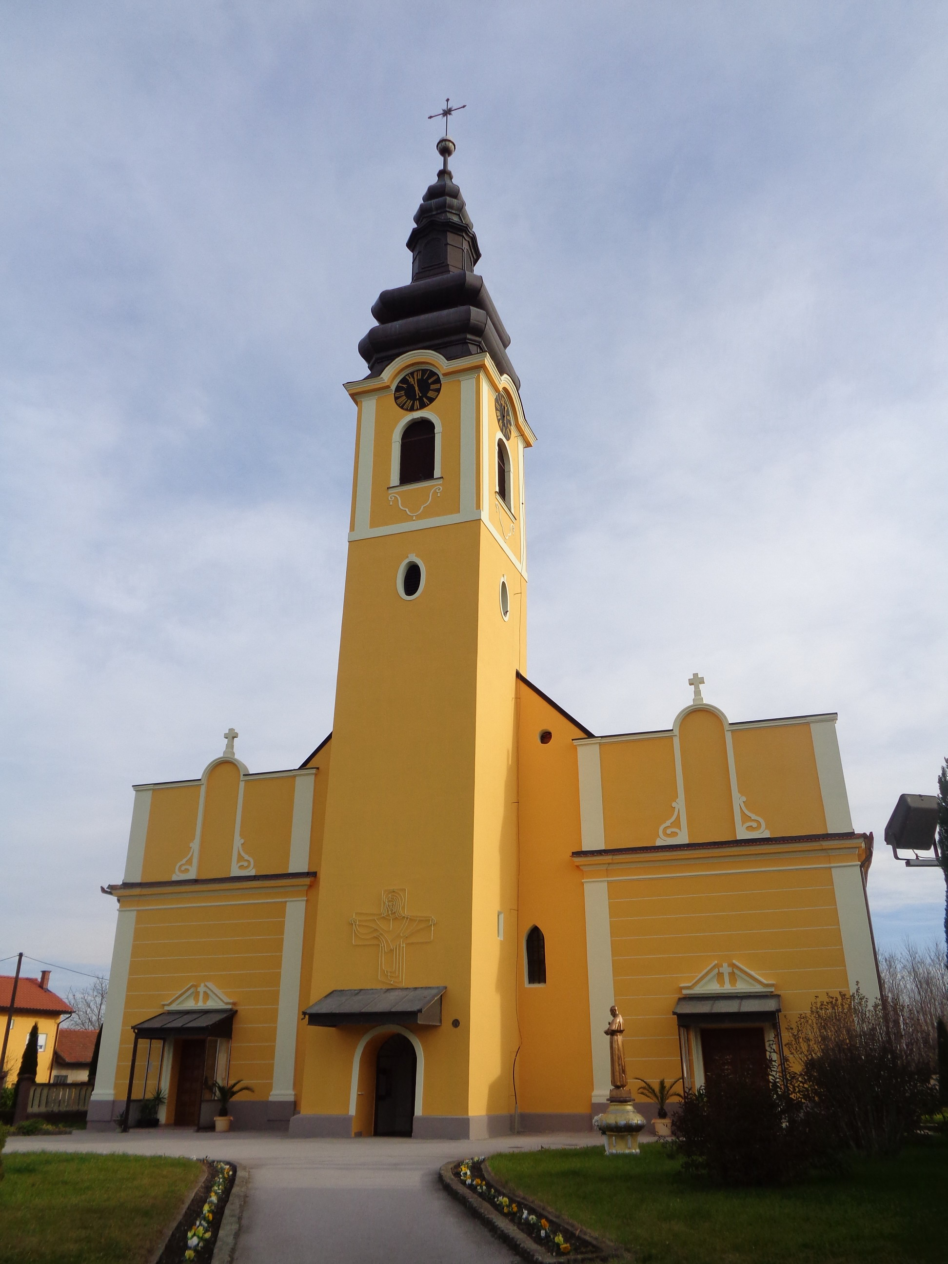 Church of the Birth of the Blessed Virgin Mary in Mala Subotica village, Medjimurje County, Croatia